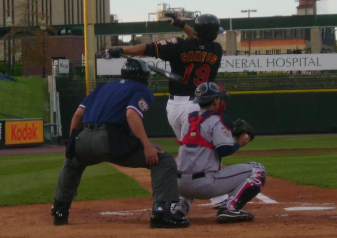 Sergio Santos swings and misses. 5/15/08 04:06, 20 May 2008 . . Phil5329 . . 671×474 (36 KB)